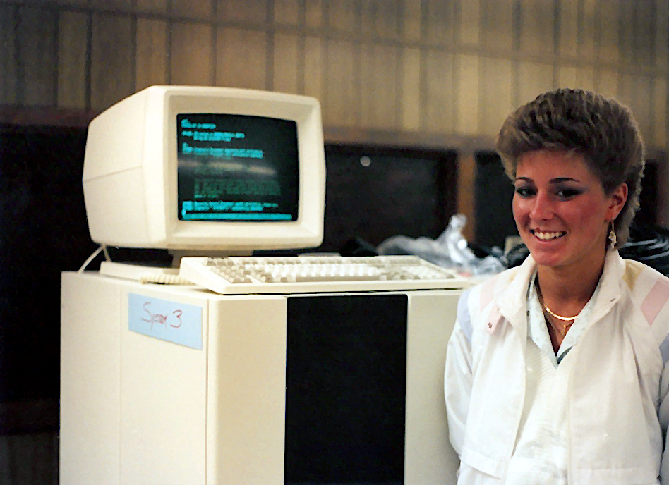 Prime 9950 Computer System with CTR command console (a PT200) at Kean University in Union, New Jersey, USA.